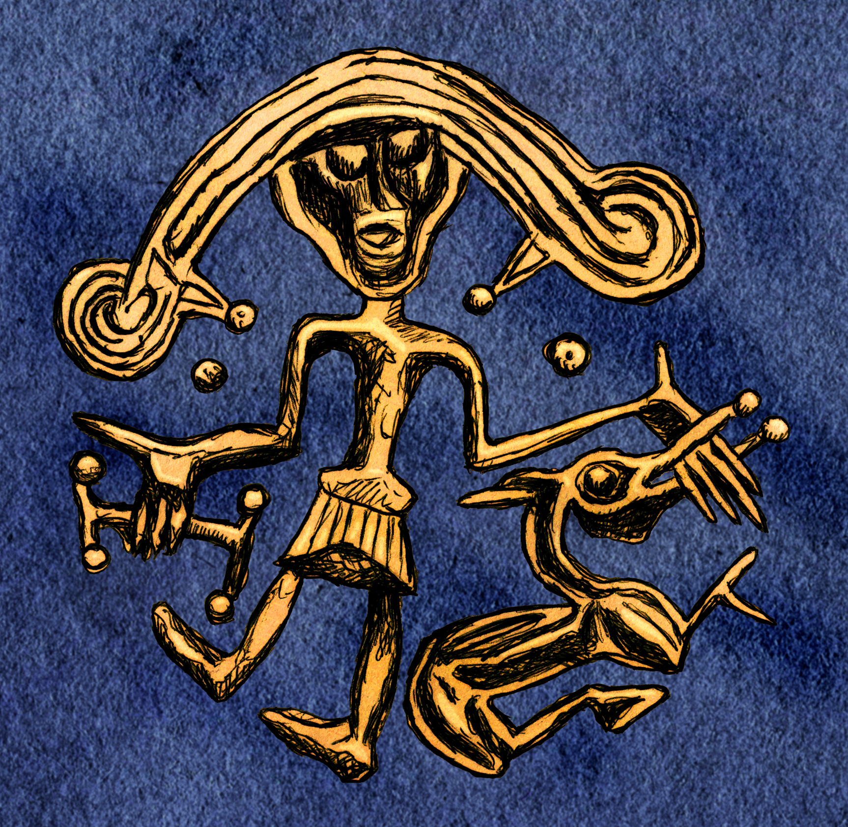 The motive from the Týr bracteate from Trollhättan, Västergötland, Sweden. Drawing by Gunnar Creutz.The bracteate shows the Norse god Týr with Fenrir biting his hand. The gold bracteate is dated to the Migration period. The bracteate was found together with another gold bracteate by the farmer Anders Larsson in Ladugården, Ladugårdsbyn, Naglum Parish, now Trollhättan Municipality, Västergötland, Sweden.